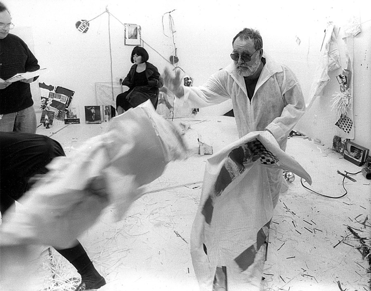 1993 Performance at Intermedia Studios, University of Iowa. Left to right Herman Rapaport, Karen Koch, Hans Breder